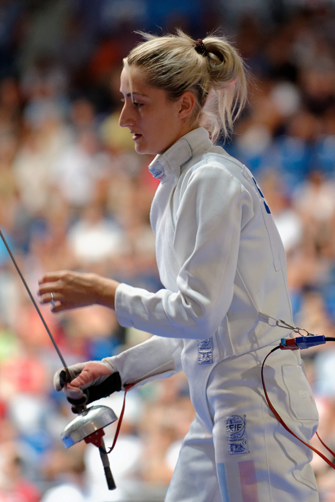 Romania's Raluca Sbîrcia at the women's épée foil event of the 2013 World Fencing Championships 2013 at Syma Hall in Budapest, 11 August 2013.